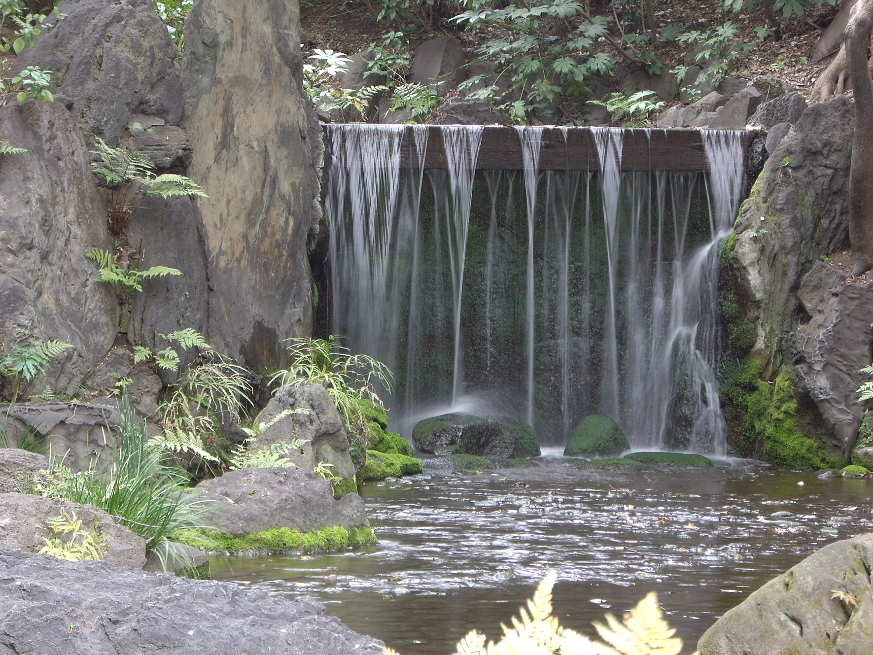 Watterfall in the garden